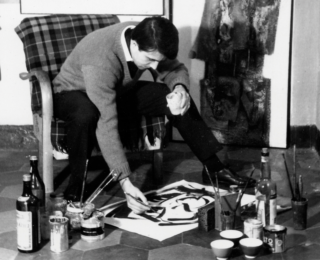 Gianfranco Zappettini at work, 1960s